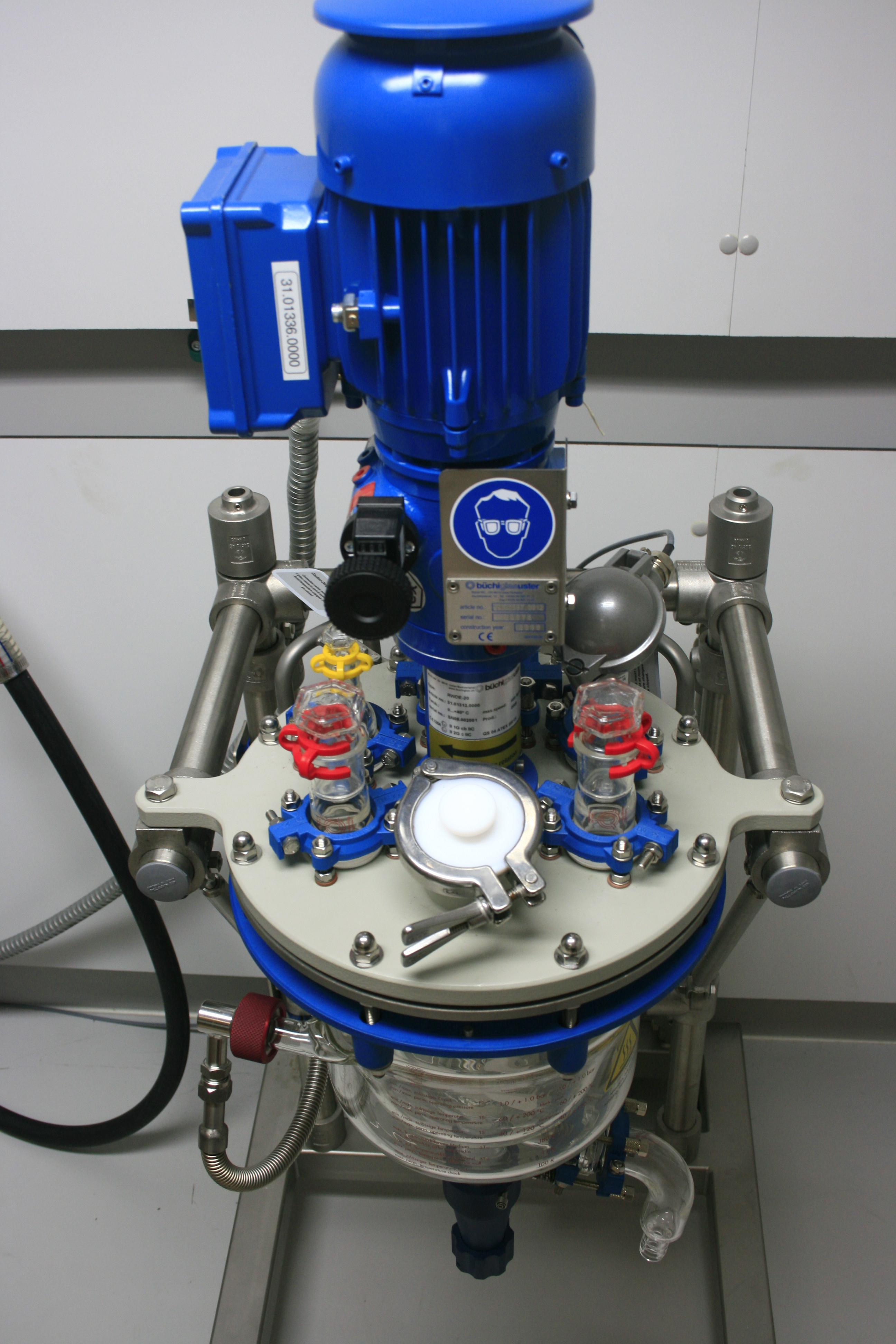 reactor